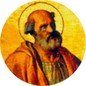 Portait of Pope Anastasius II in the Basilica of Saint Paul Outside the Walls, Rome